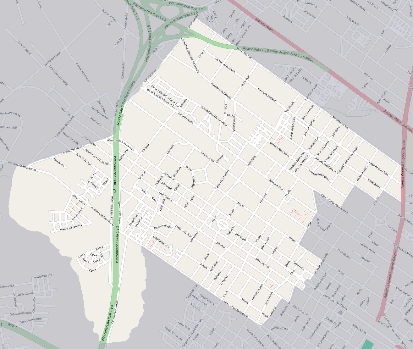 Street map of Nuevo París, Montevideo, exported from OpenStreetMap. I added shading to delimit the barrio. This map may be incomplete, and may contain errors. Don't rely solely on it for navigation.